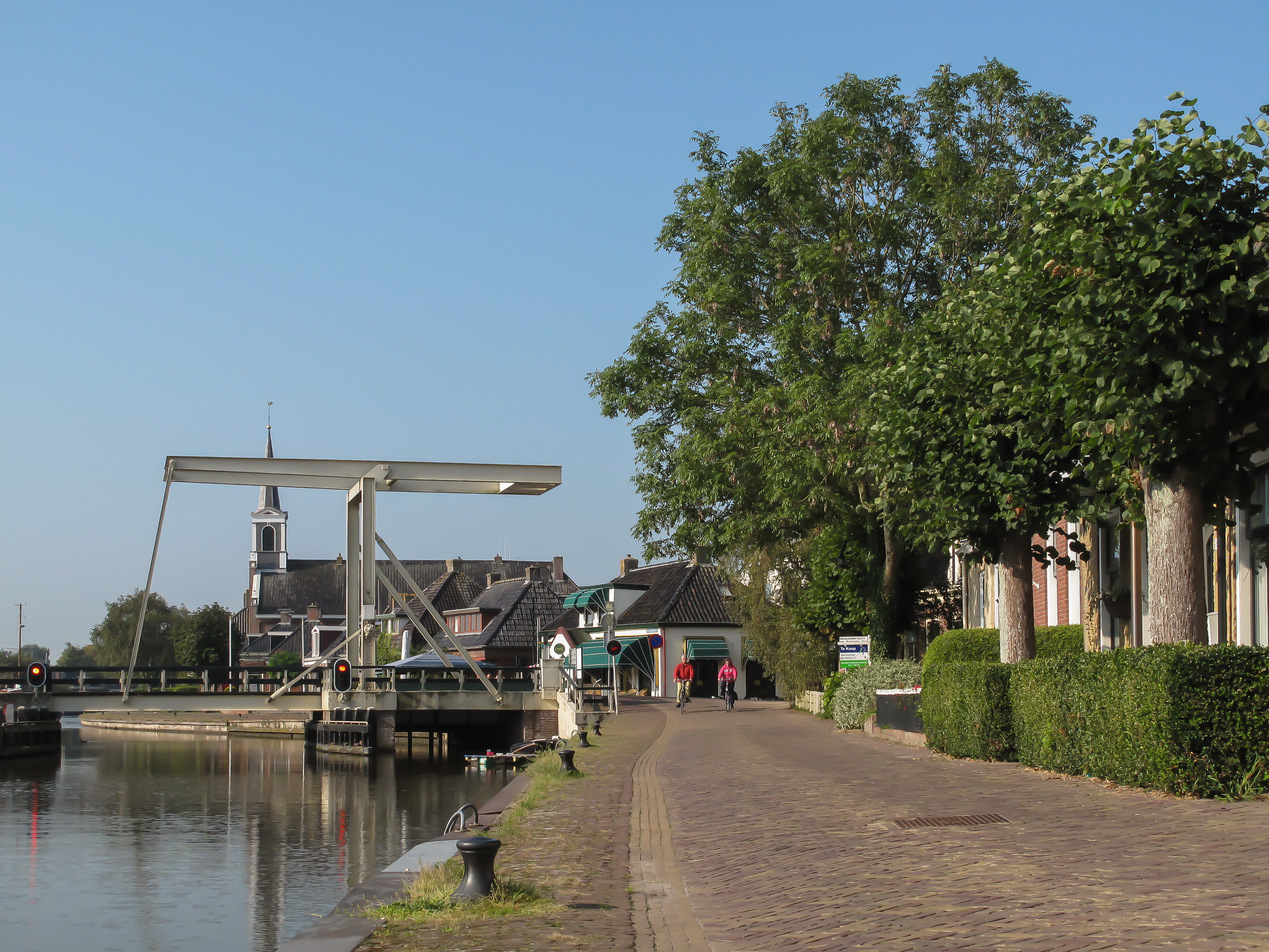 Birdaard, drawbridge and church on background